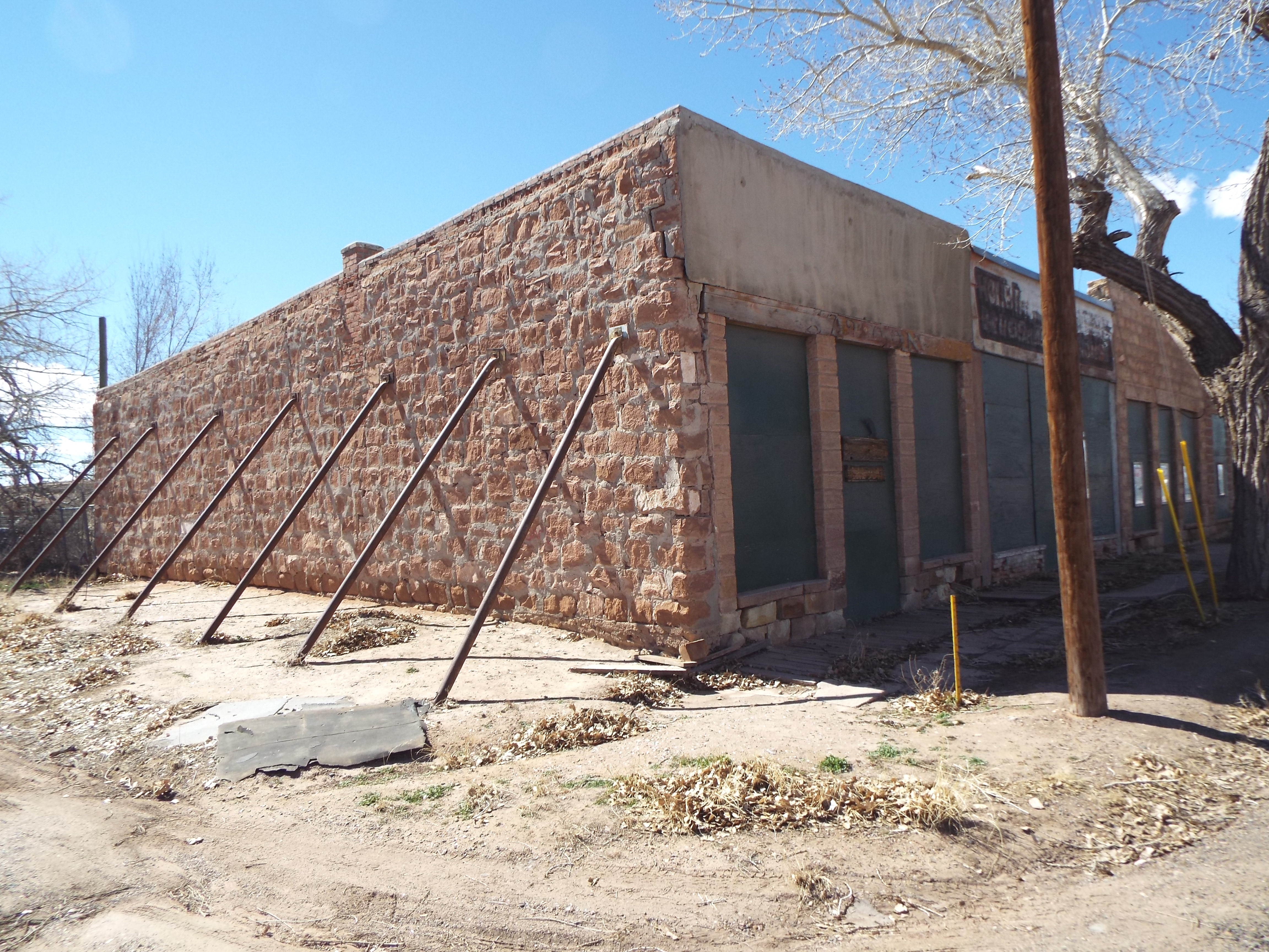 The South Central Avenue Commercial Historic District Consists of the following four original buildings: H. H. Scorse Mercantile, the Pioneer Saloon, the Robinson & Co. Drug Store, and the Bucket of Blood Saloon. All four buildings are linked by the ownership of Lloyd C. Henning. National Register Information System ID: 97000041